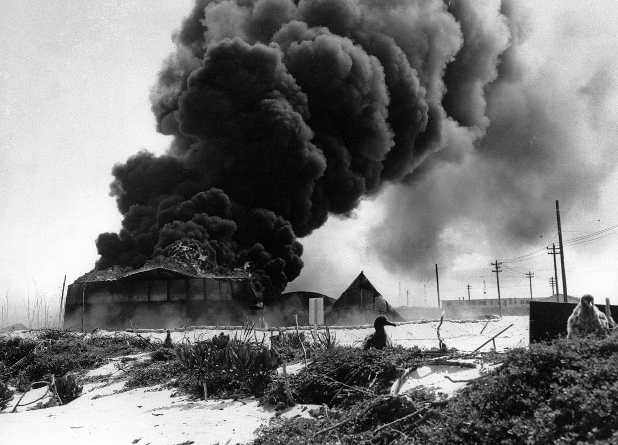 Battle of Midway, June 1942. Burning oil tanks on Sand Island, Midway, following the Japanese air attack delivered on the morning of 4 June 1942. These tanks were located near what was then the southern shore of Sand Island. This view looks inland from the vicinity of the beach. Three Laysan Albatross ("Gooney Bird") chicks are visible in the foreground.